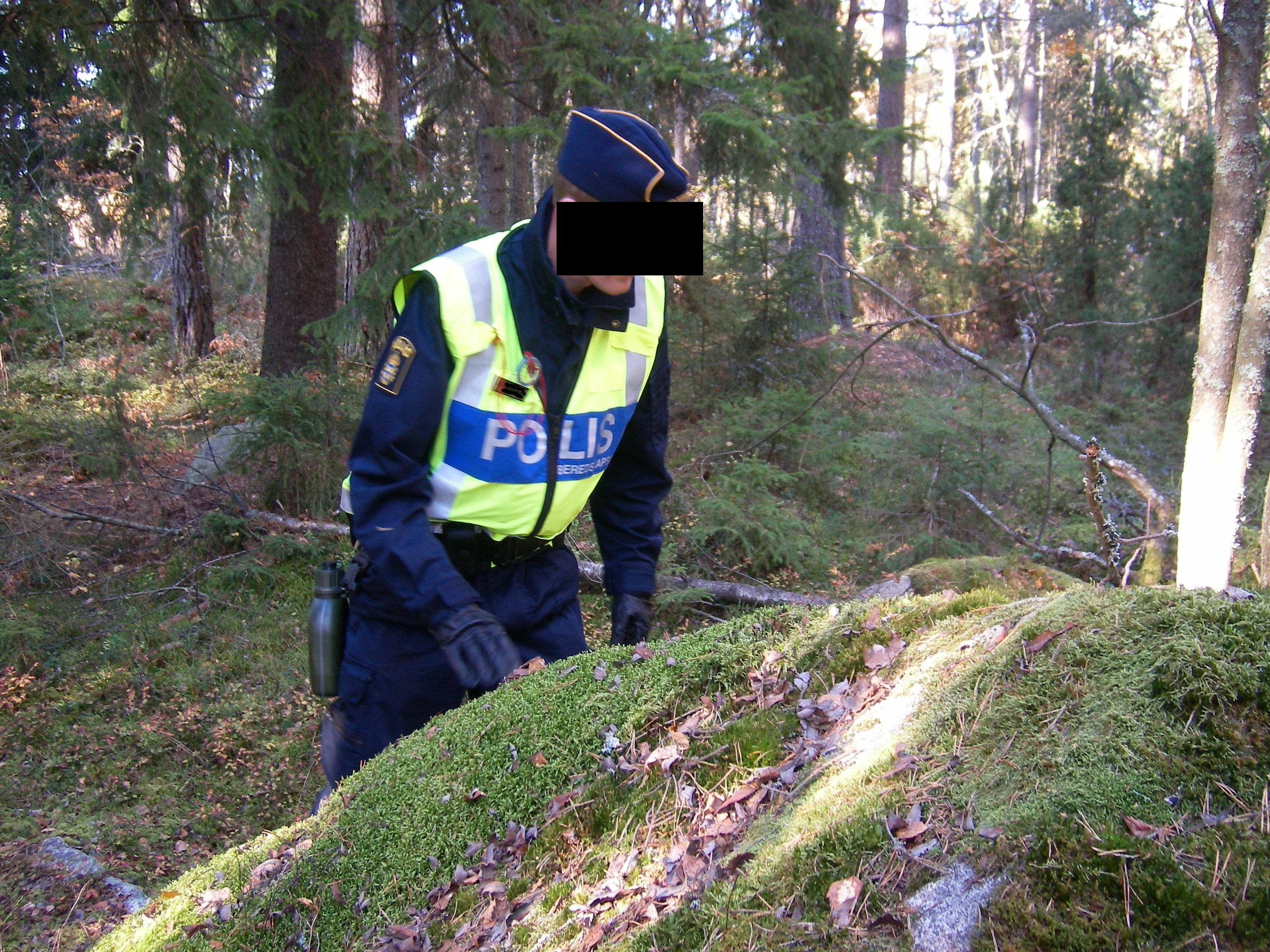 Beredskapspolis vid övning /Swedish Emergency Police